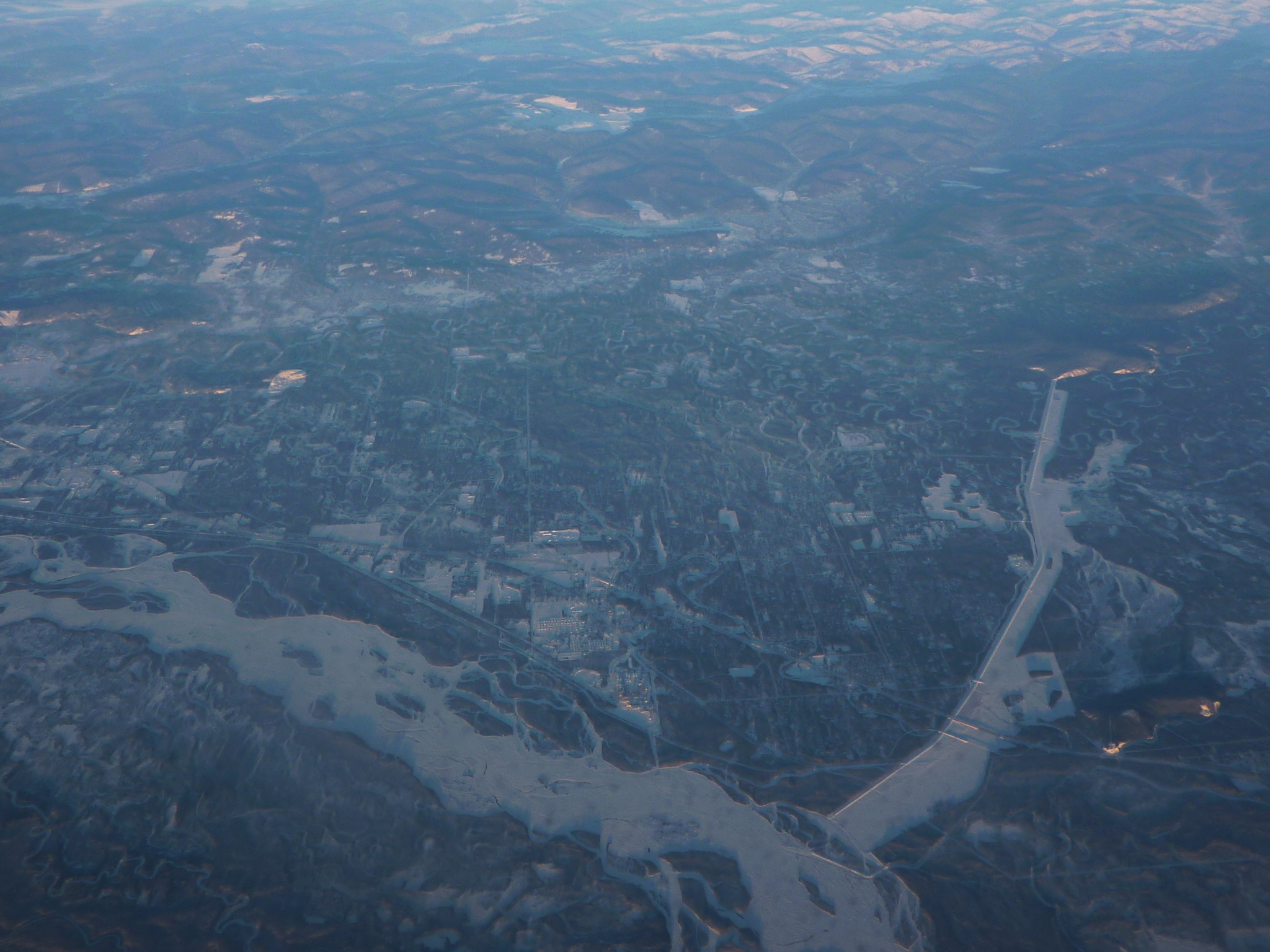 Aerial view of a section of the Tanana River Valley east of Fairbanks. The Tanana River itself is in the bottom left corner; North Pole, AK, is above it, in the center left. Seen from a non-stop AA flight Chicago-Beijing.